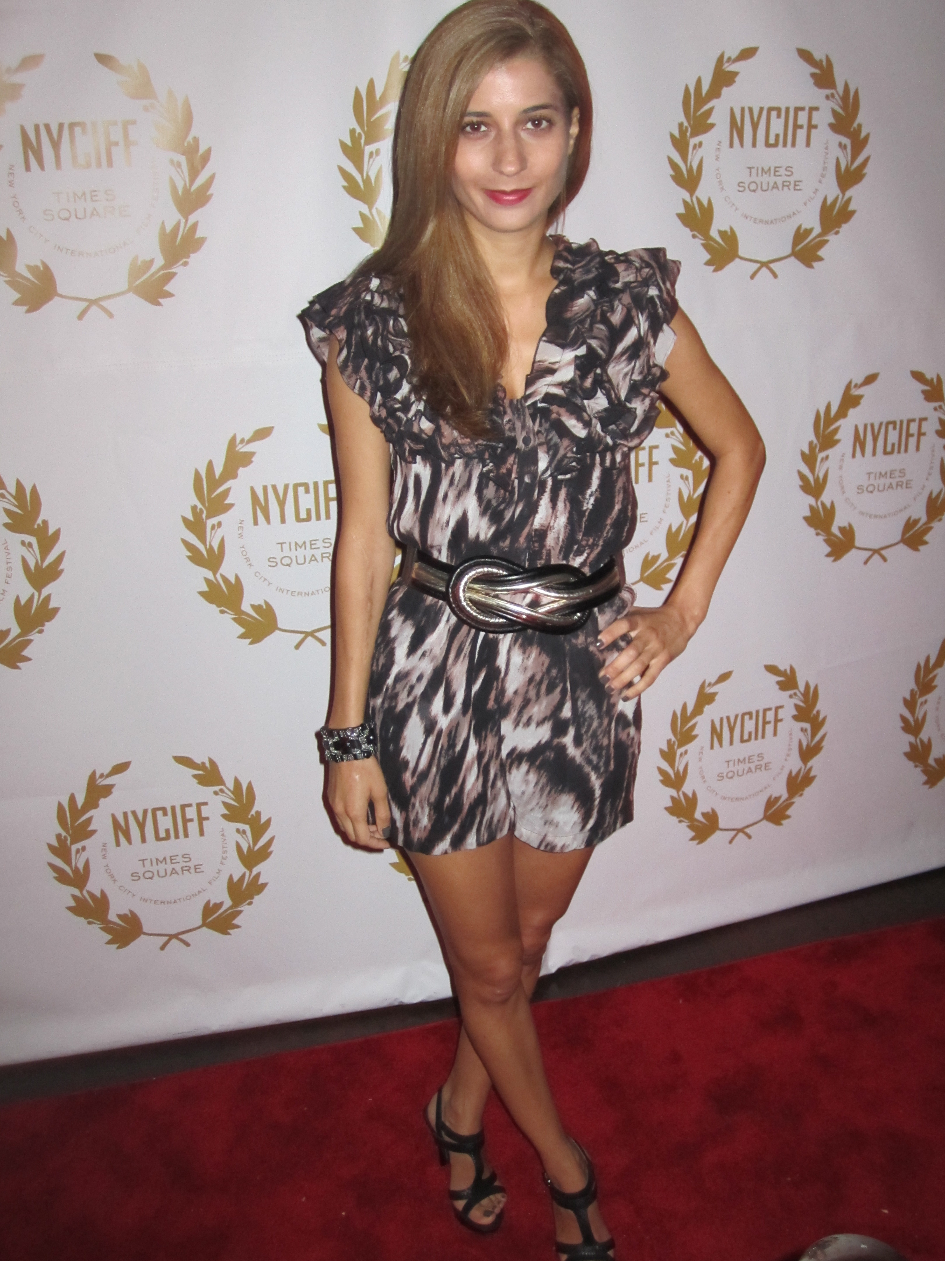 Actress Laila Alina Reischer at the New York International Film Festival 2011, Time Square Award for Best supporting actress for the film "22:43"